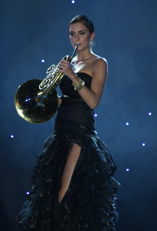 Miss Croatia 2008 Josipa Kusic during Miss World 08